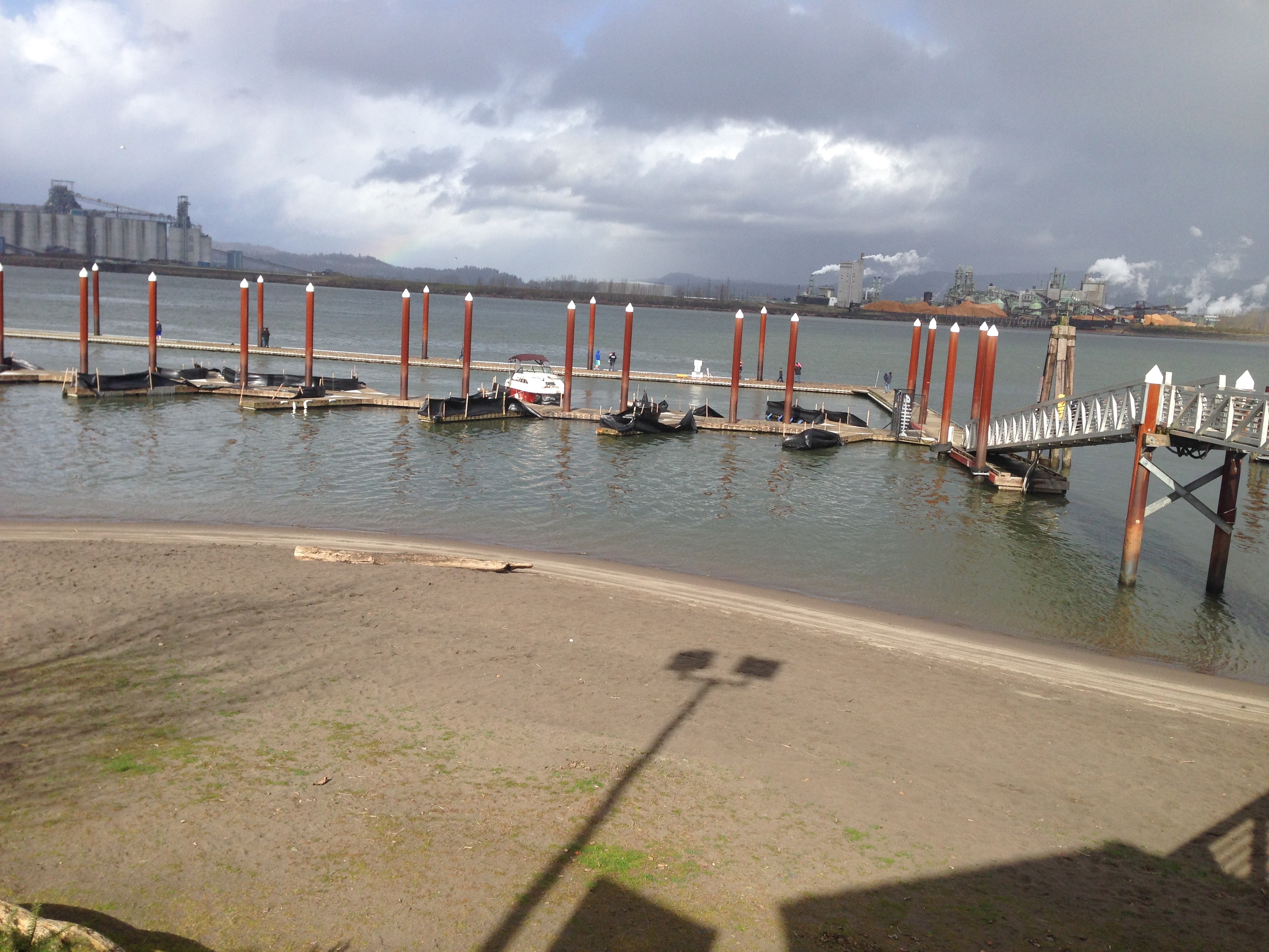 Marina at Rainier, Oregon